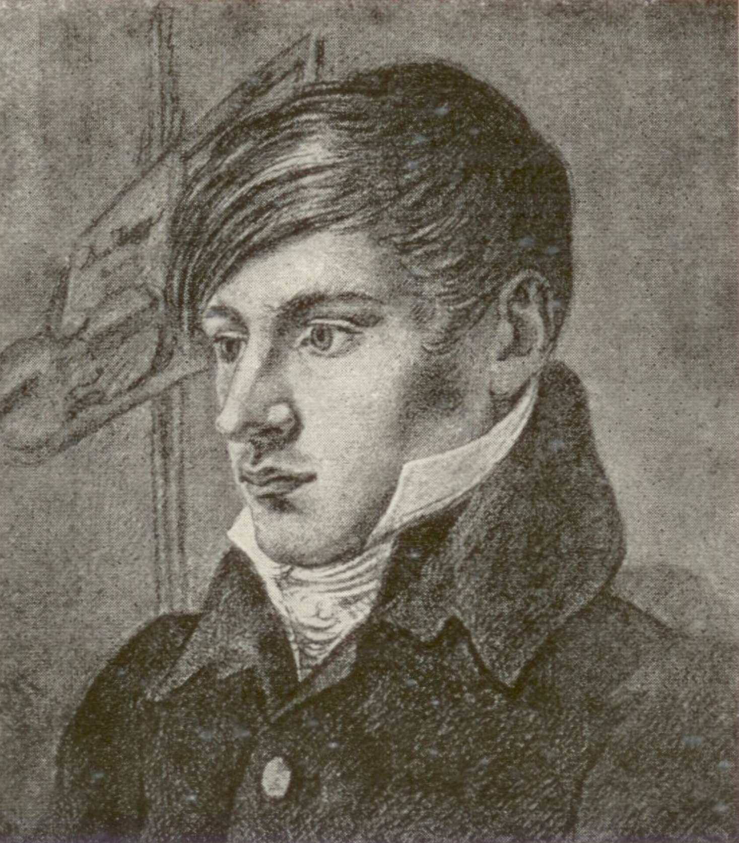 Portrait of Carl Balthasar Malß (1792-1848), German poet